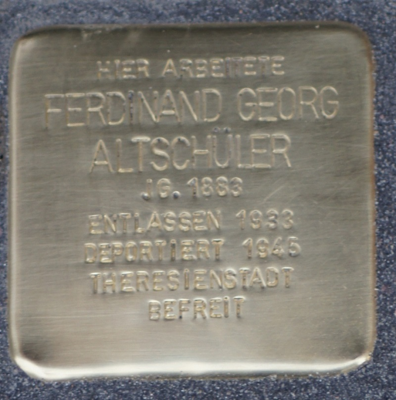 Ferdinand Georg Altschüler, Stolperstein, Bahnhofstrasse 33, Frankenthal